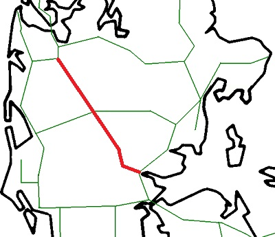 Map of railways in Middle Jutland in Denmark with the state railway between Vejle, Herning and Holstebro in red.